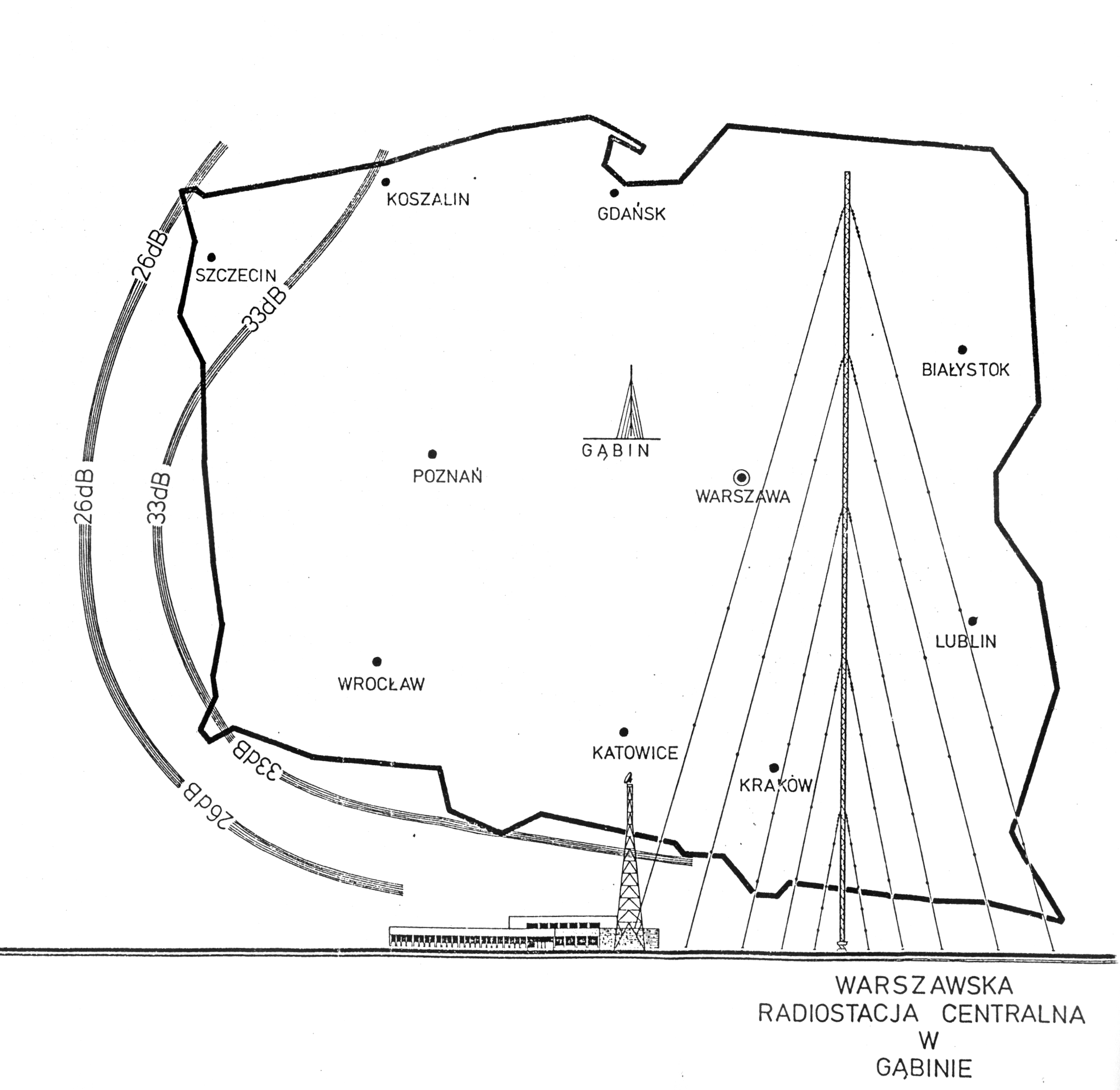 Warsaw Radio miast - official brochure given for visitors, scan